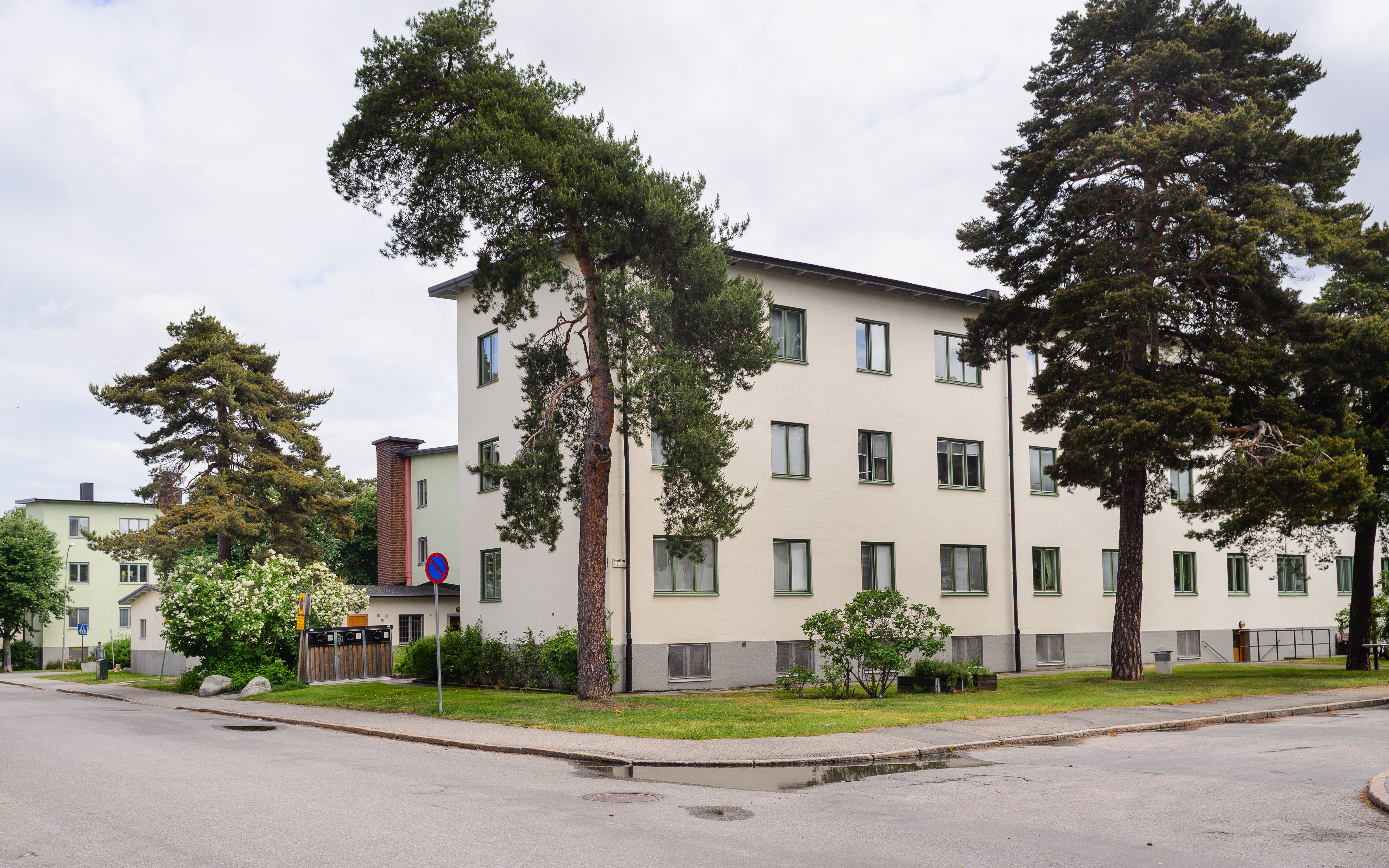 Building in Hammarbyhöjden. Built 1937-38. Architect: Carl Melin.